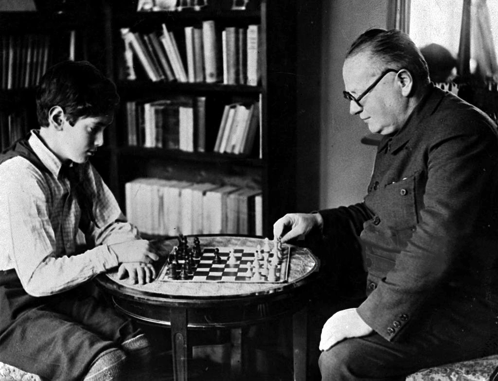 Maxim Litvinov plays chess with his son Misha 1936